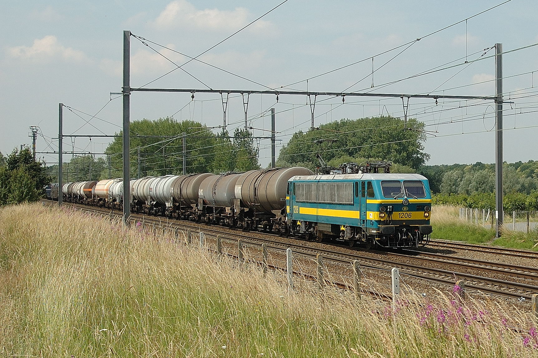 SNCB locomotive 1206 with freighttrain near Schellebelle in Belgium.